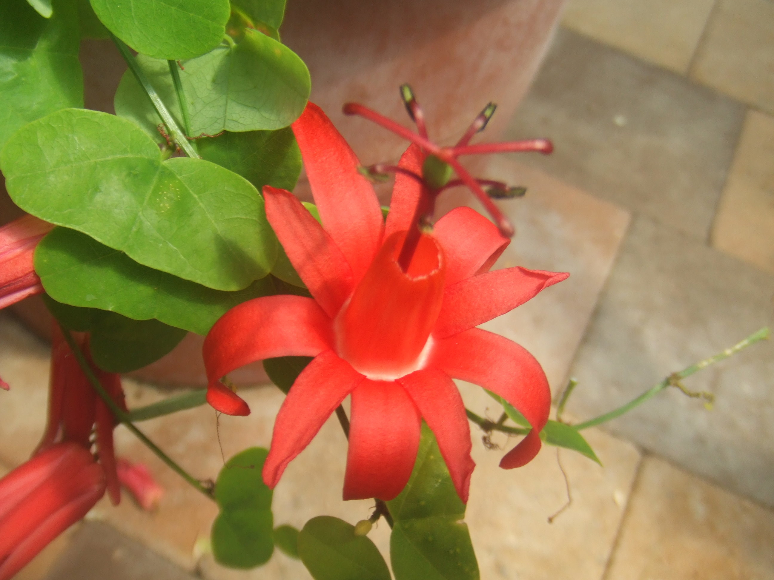 Passiflora murucuja, picture taken at Passiflorahoeve in Harskamp, The Netherlands